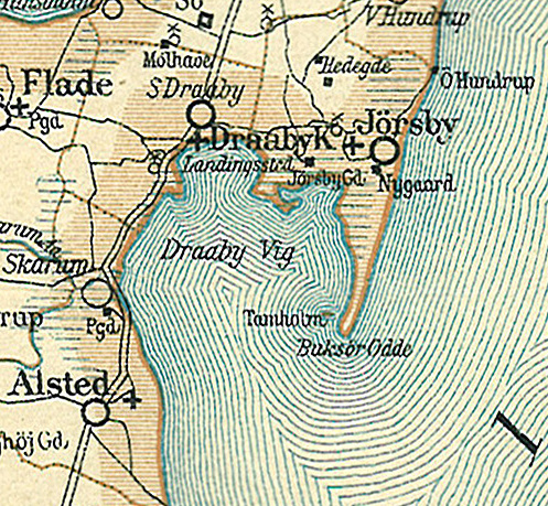 Map of Thisted County in Denmark